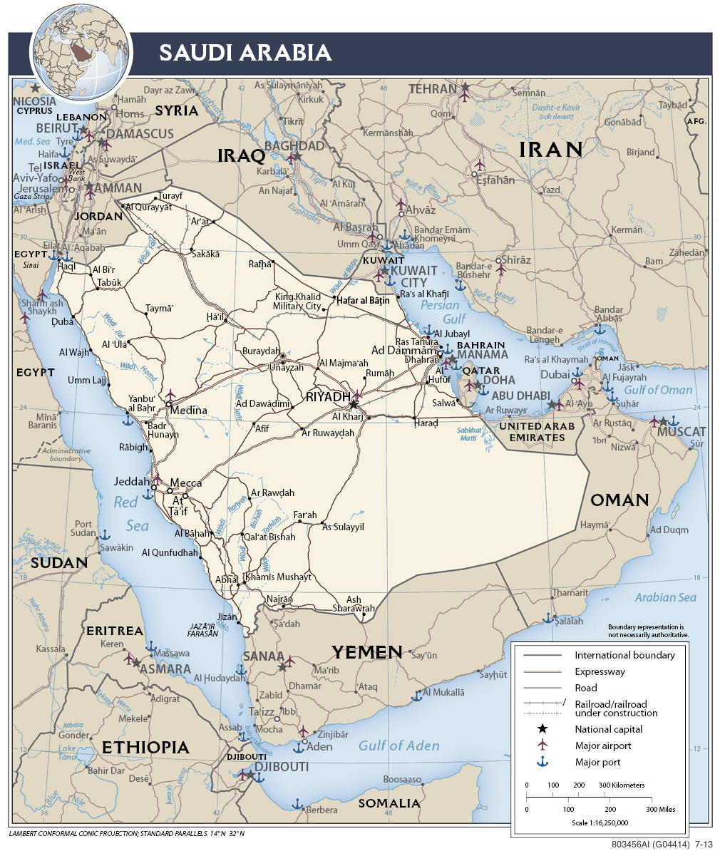 Arabia-Saudi transport- road, rail, sea port, air port.